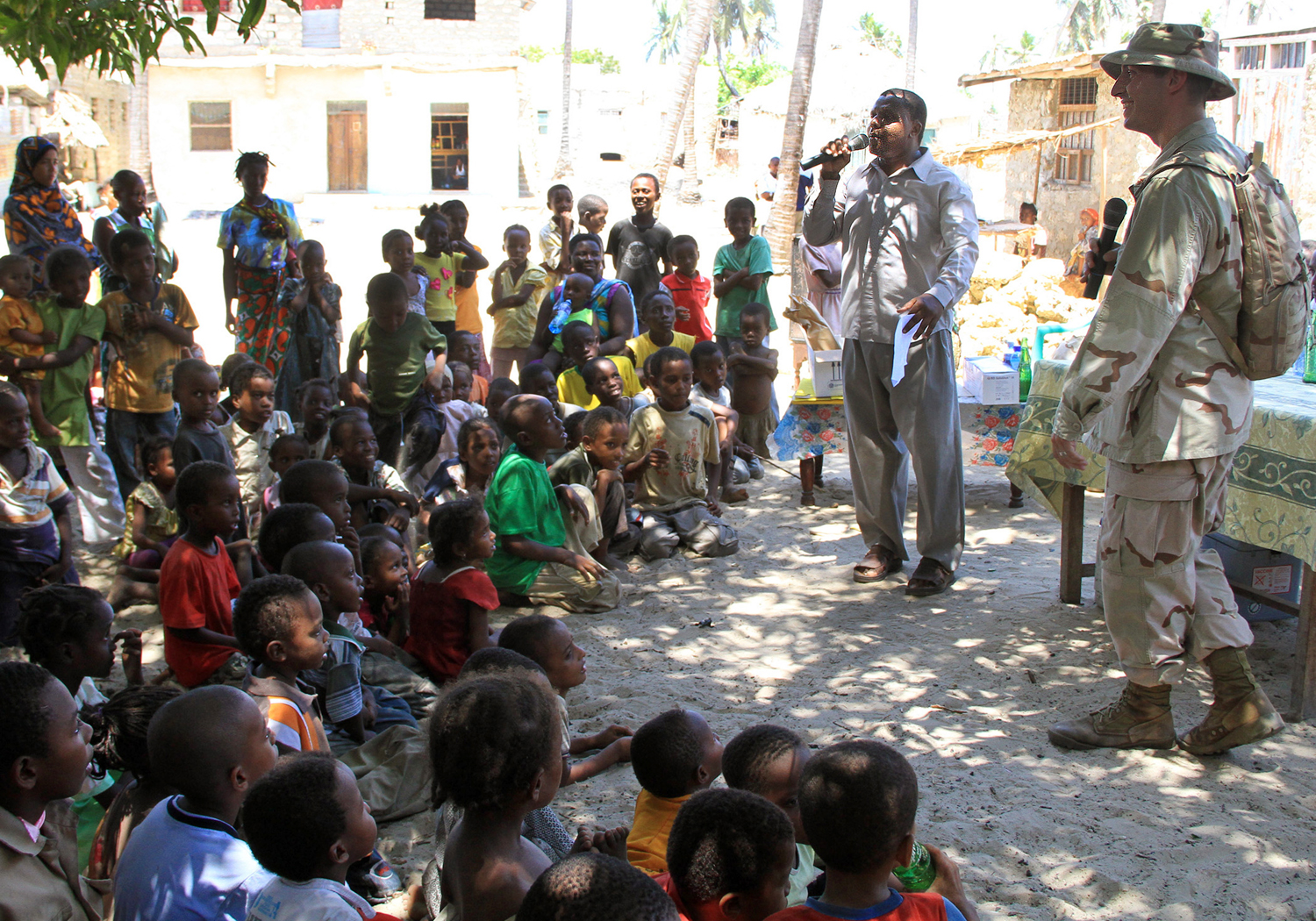 U.S. Navy Lt. Andrew Moyer, Maritime Civil Affairs Team 208, speak at a World Malaria Day event in Lamu, Kenya, April 21. U.S. Air Force photo by Capt. Jennifer Pearson To learn more about U.S. Army Africa visit our official website at Official Twitter Feed: Official Vimeo video channel